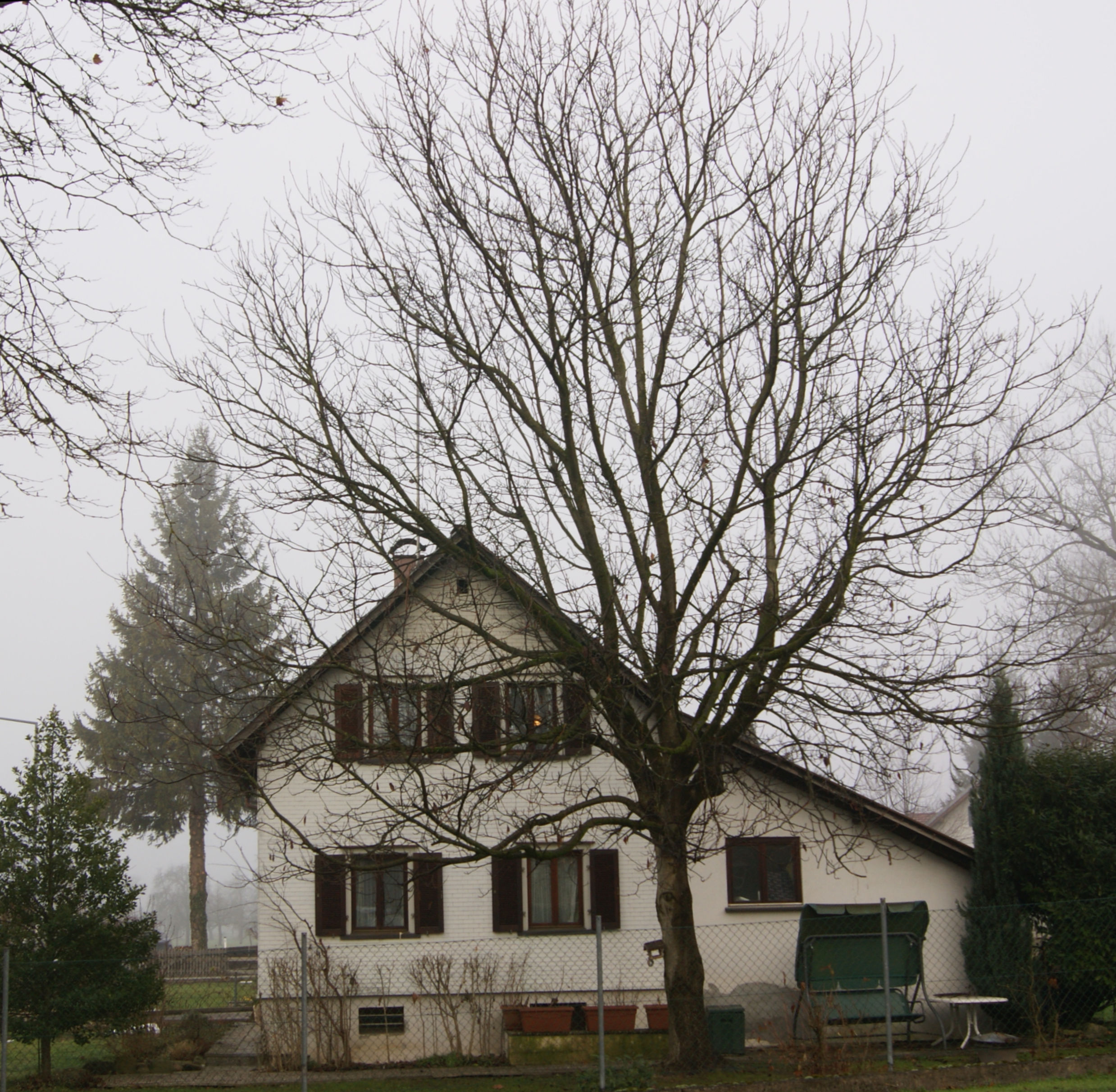 Housing estate / worker settlement Birkenwiese in Dornbirn, Vorarlberg, Austria. House no. 16.